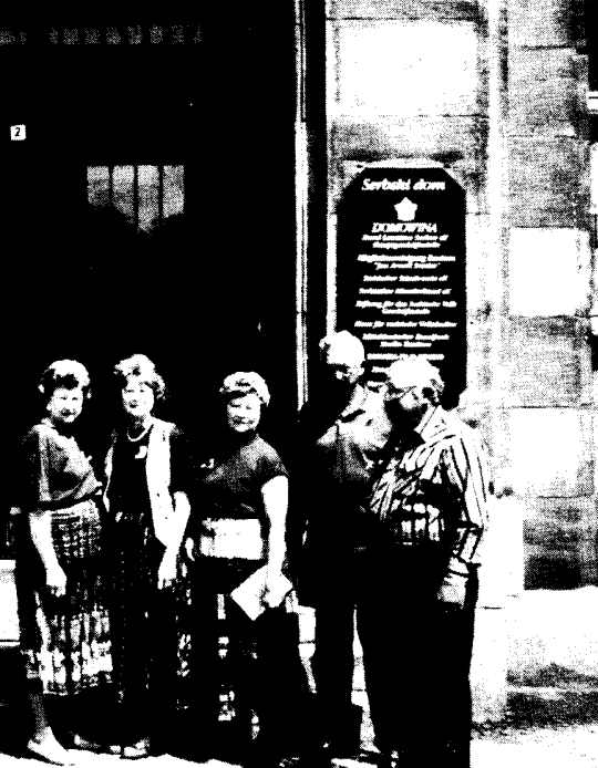 Texas Wends at the Domowina in Bautzen, June 1994: Elinor Steglich, Georgie Boyce, Evelyn Kasper, Leroy Steglich, and Arnold Kasper